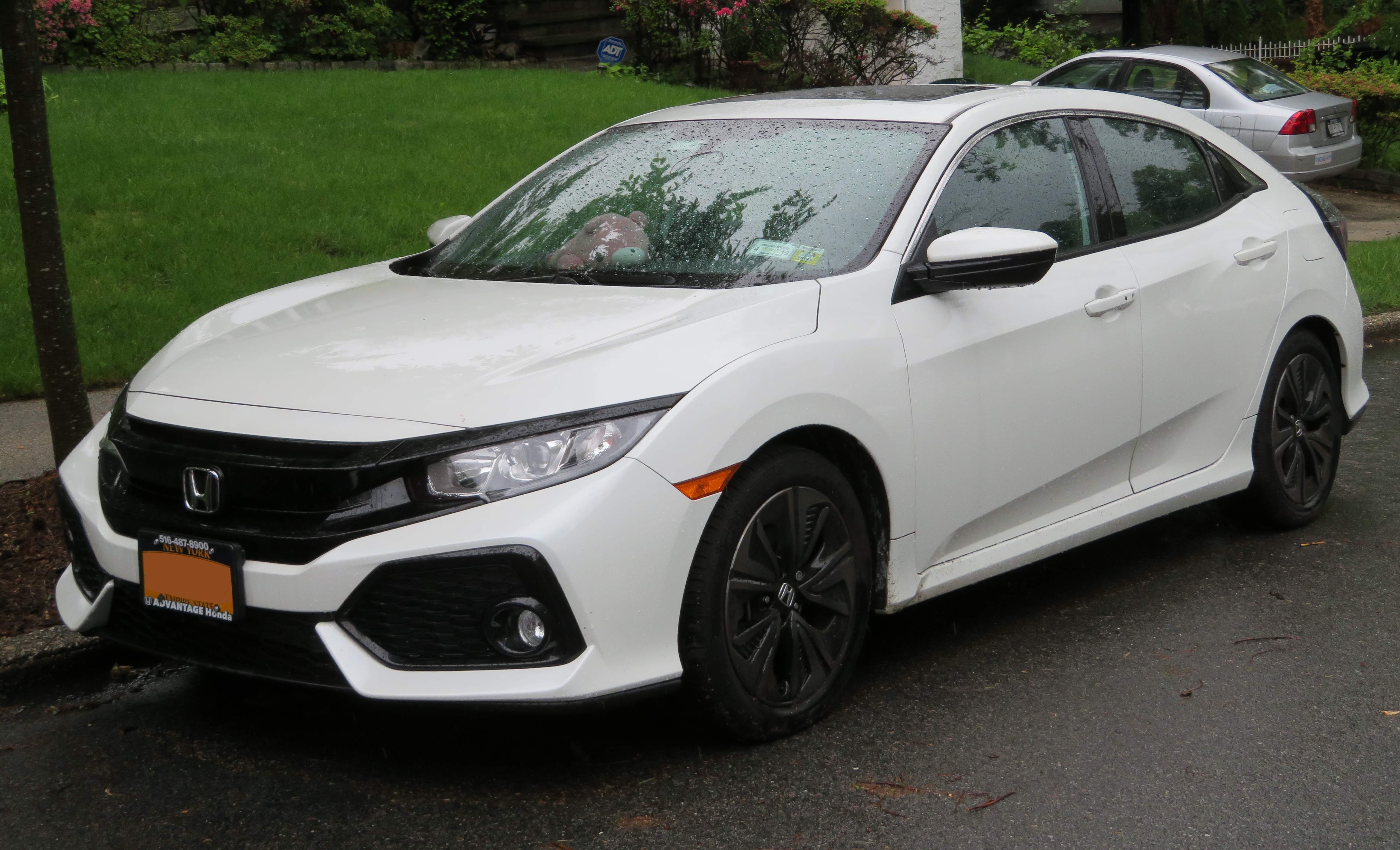 Photographed in Queens, New York